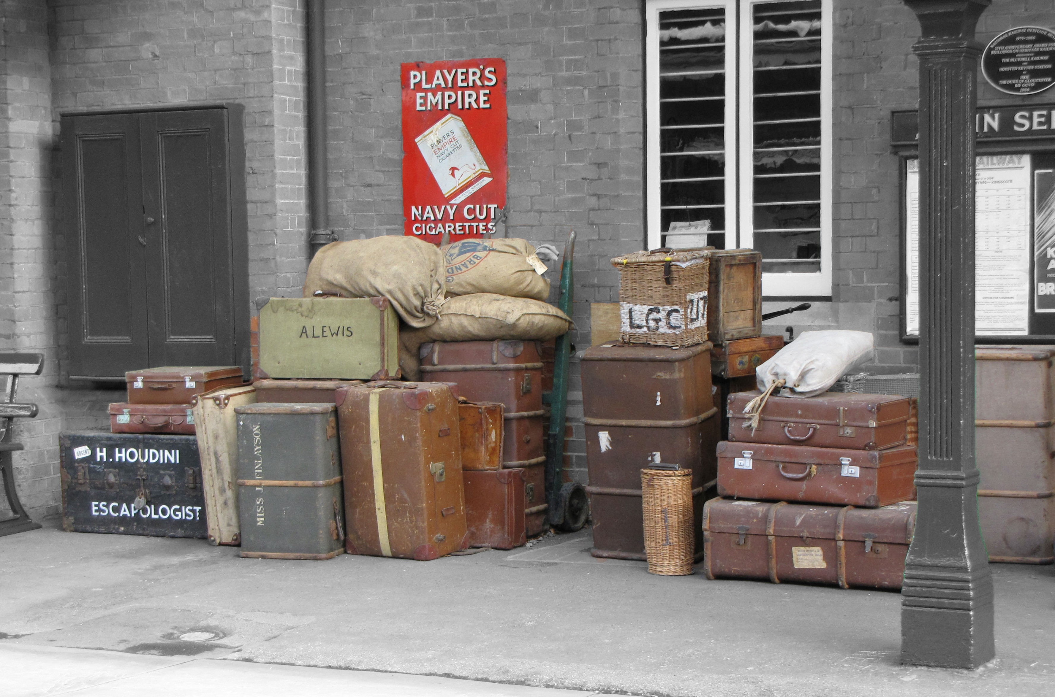 A stack of old-style luggage helps re-create a past era of the railway at Horsted Keynes railway station, Platform 5, on the Bluebell railway.